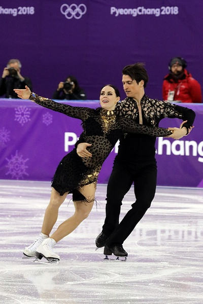 Tessa Virtue and Scott Moir at the 2018 Winter Olympic Games in PyeongChang